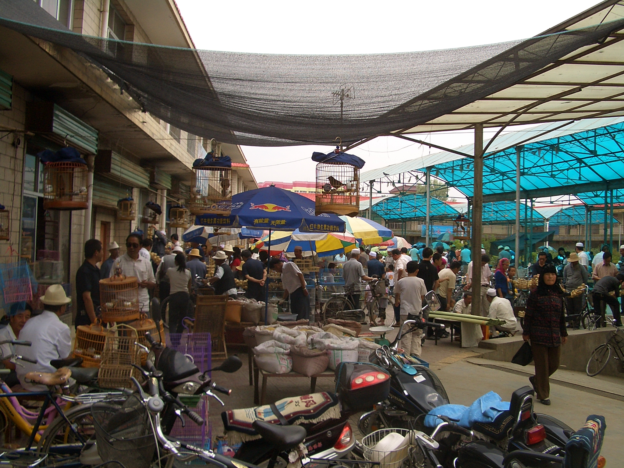 A market in the Dongguan section of Linxia City. Crafts, souvenirs, books, and pets are sold in this section